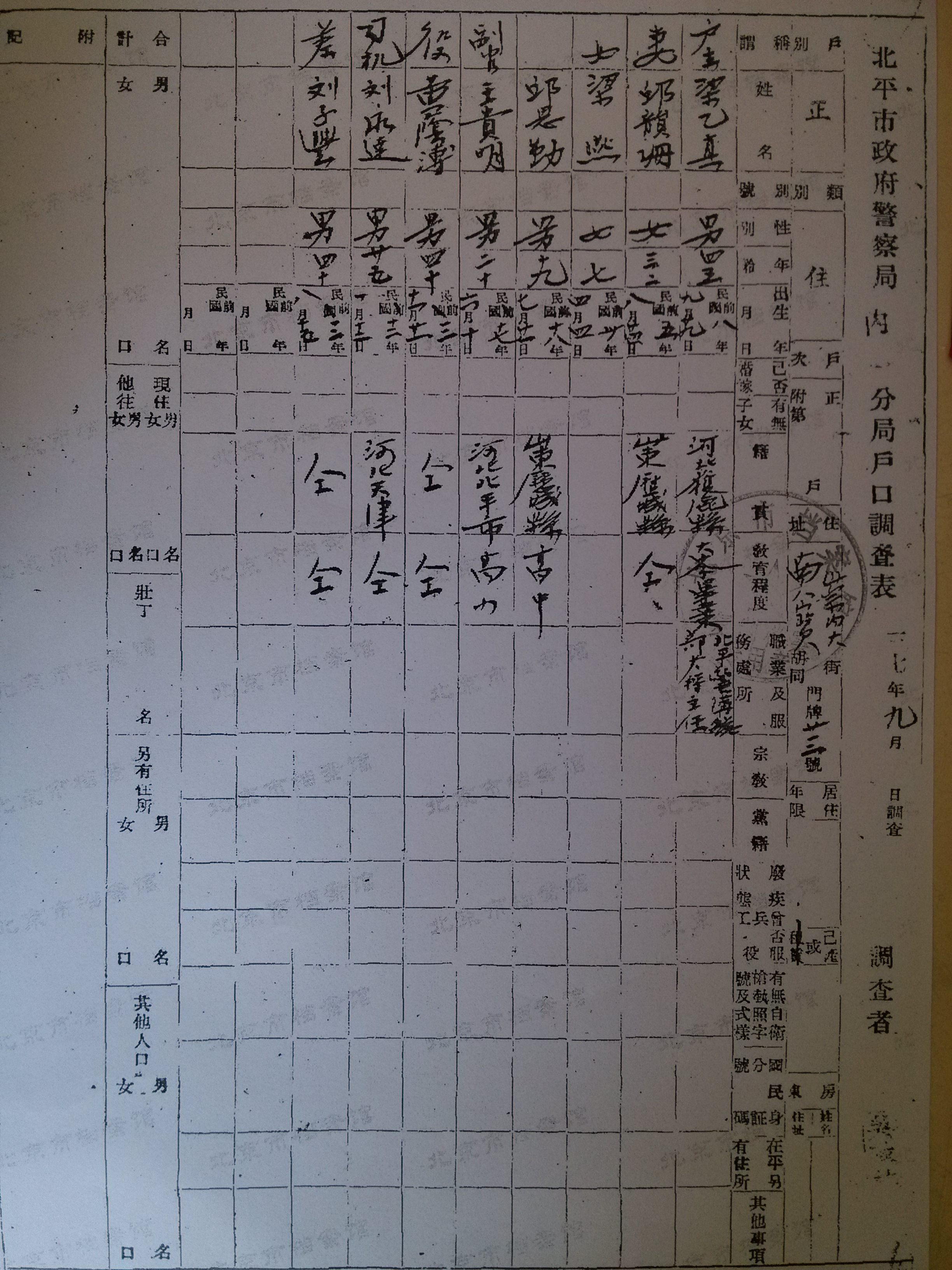 Liang Yizhen, in the republic of China in 37 years of the Peking municipal police department registration of the home card.The original is stored in the Beijing archives.